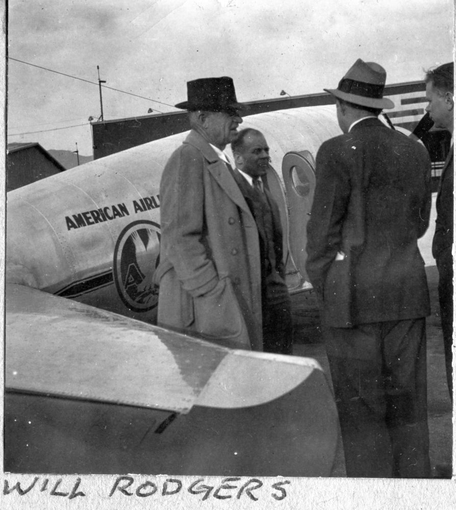 Image from an Album (AL-77) belonging to Charles Rector, who was a pilot whose career spanned several generations. Some highlights of his life include working for Tallmantz aviation on many major Hollywood Movies, and working as Mick Jagger's pilot. More info on Rector can be found here: SOURCE INSTITUTION: San Diego Air and Space Museum Archive